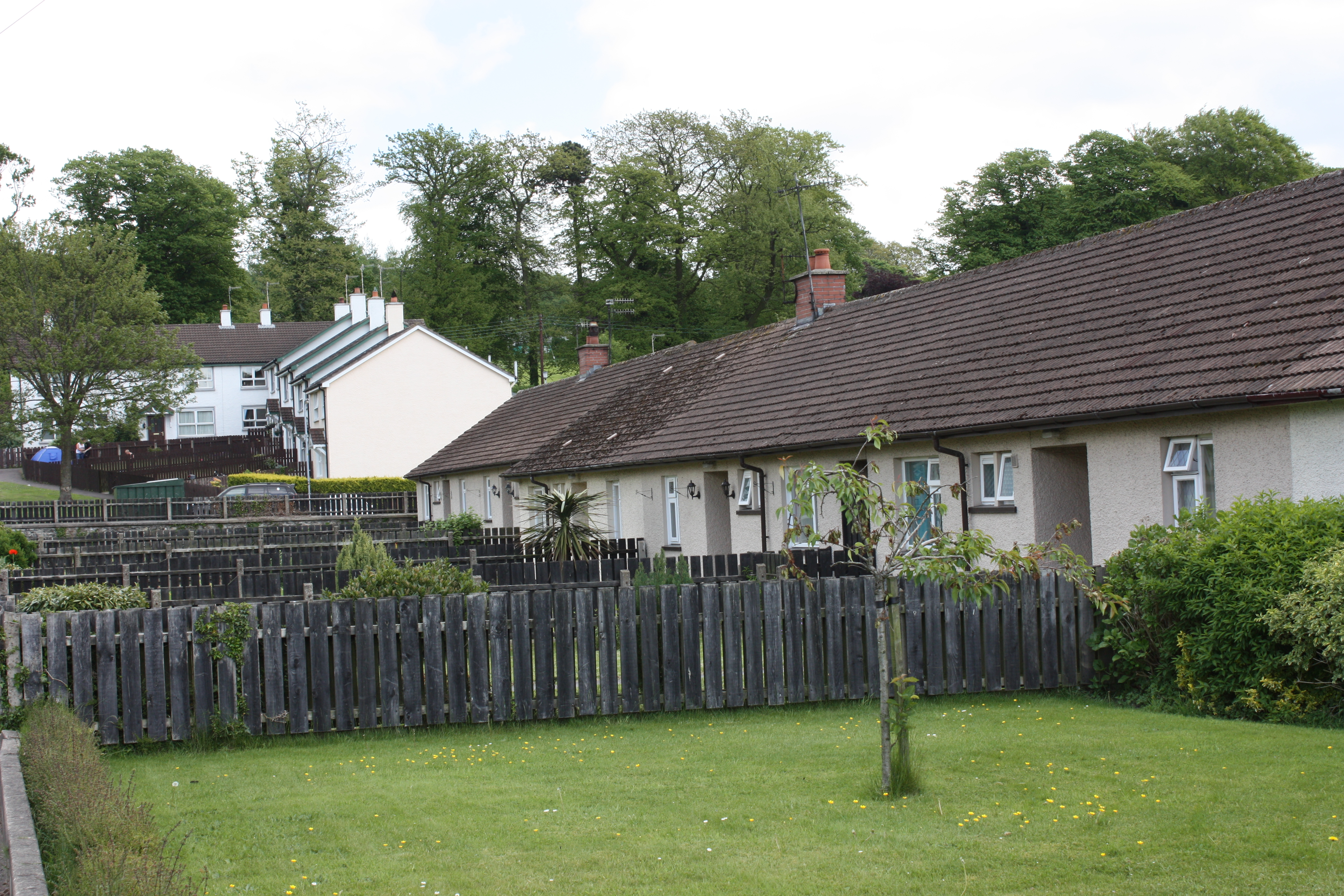 Houses, Mill Hill, Annsborough, County Down, Northern Ireland, May 2010